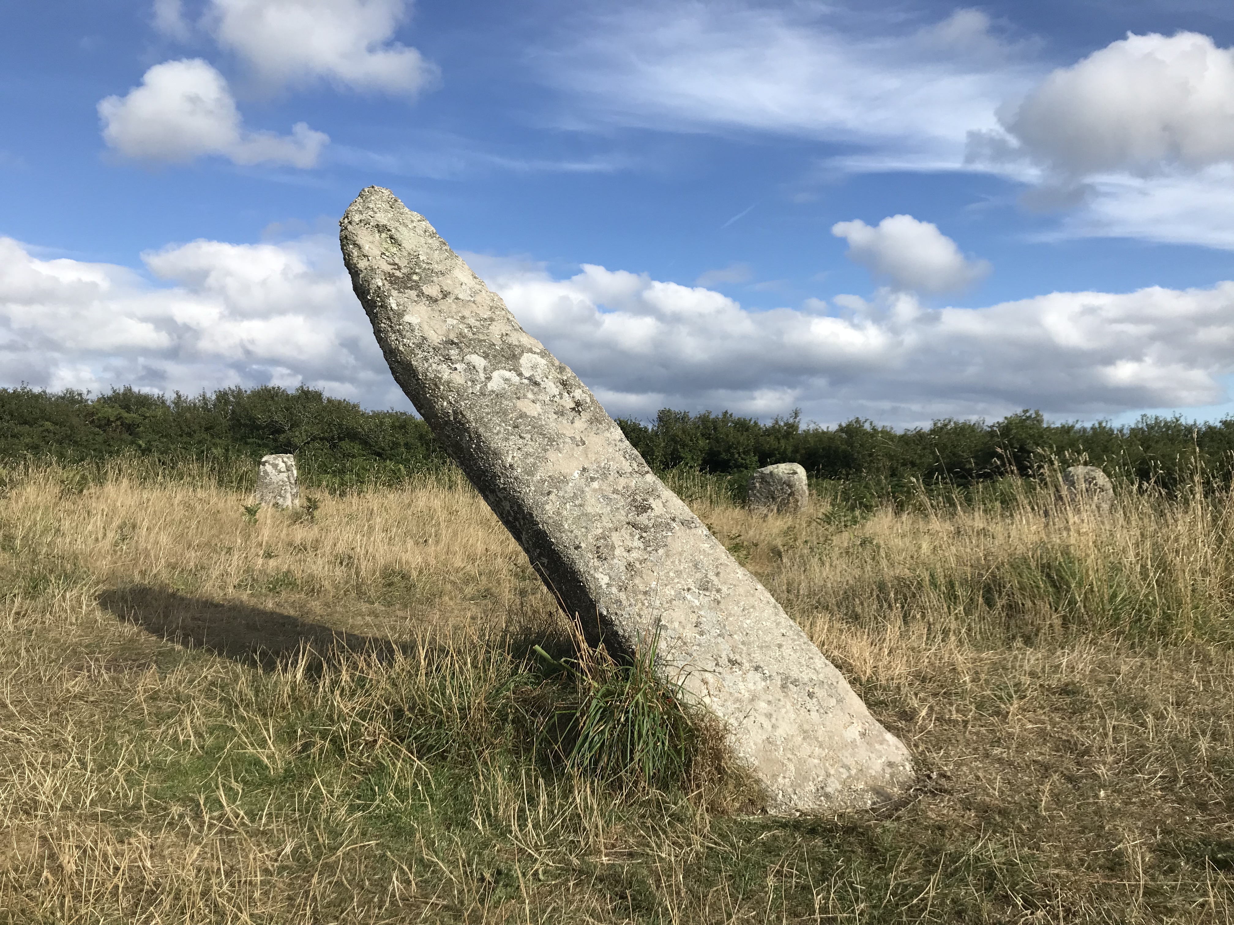 Boscawen-ûn stone circle in Cornwall UK